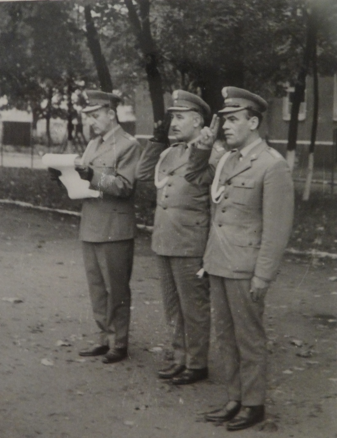 Garnizon Stargard Szczeciński, 1968r. Z prawej szef sztabu 45 bm kpt. Józef Kolodziejczak